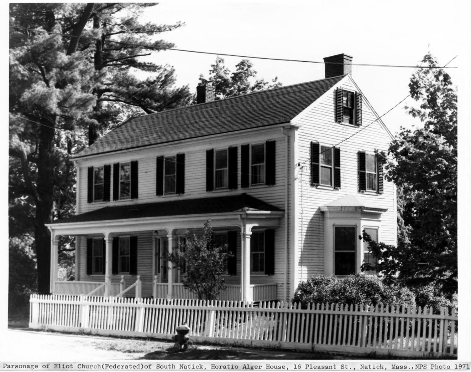 The Parsonage, Natick (Middlesex County, Massachusetts) cropped This image or media file contains material based on a work of a National Park Service employee, created during the course of the person's official duties. As a work of the U.S. federal government, such work is in the public domain. See the NPS website and NPS copyright policy for more information. Object location 42° 16′ 14.88″ N, 71° 18′ 54.0″ W This and other images at their locations on: Google Maps - Google Earth - OpenStreetMap - Proximityrama(Info)